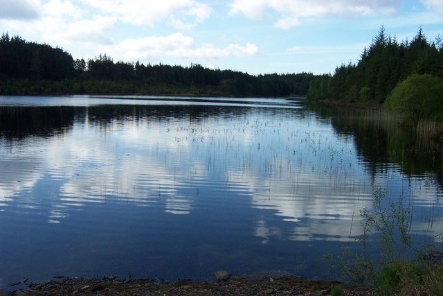 Llyn Goddionduon. Llyn Goddionduon shore in the Gwydr Forest looking in a southerly direction